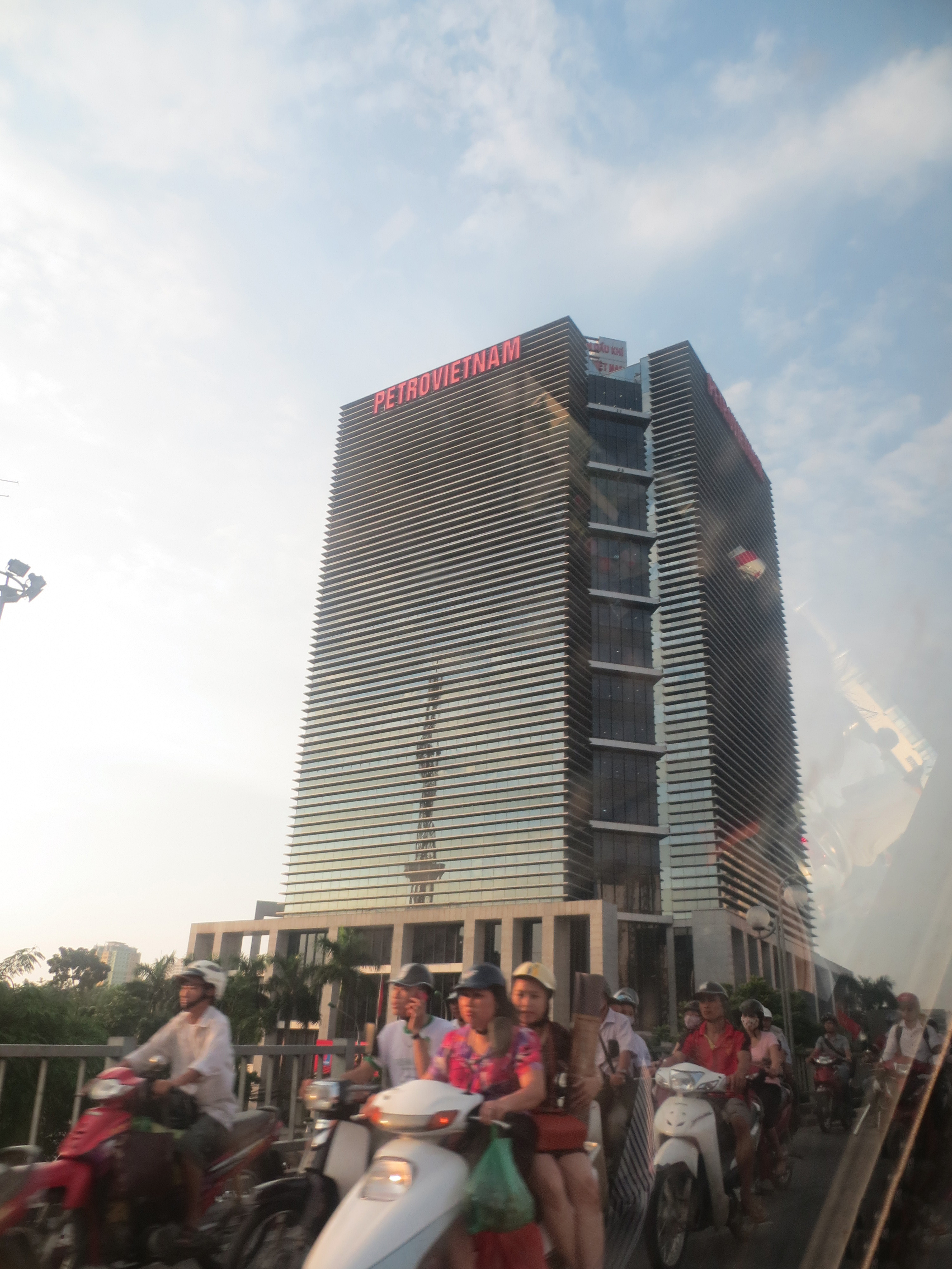 Láng Hạ Street, Hanoi, Vietnam. Photo taken on the bridge over Láng Hạ - Thái Hà - Huỳnh Thúc Kháng Intersection. PetroVietnam Tower is the building in the center of the photo.